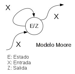 Moore Model